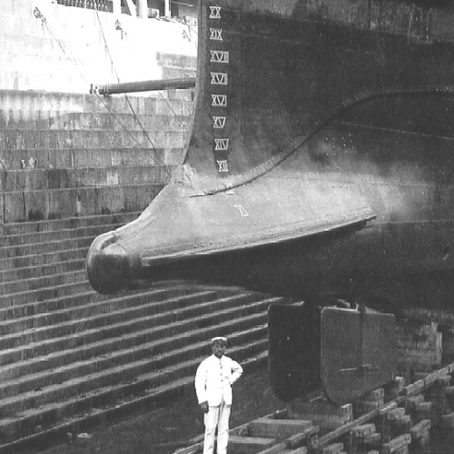 Ram and bow rudders of HMS Polyphemus in drydock at Malta. This ram is built-in a torpedo tube.